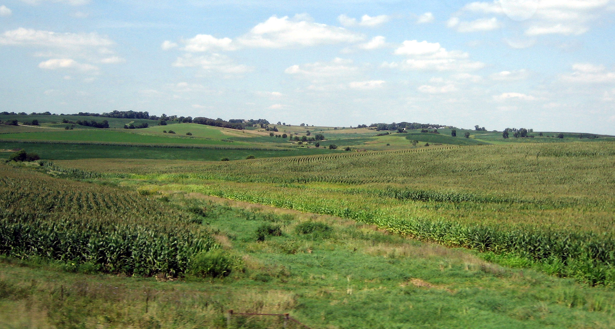 Southern Iowa Drift Plain, taken from I-80, somewhere east of Des Moines, Iowa